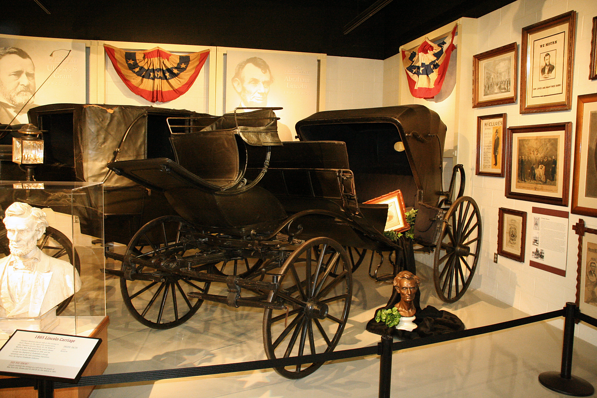 Carriage made by Studebaker for President Abraham Lincoln and used to take the president to the theater on the night of his assassination, part of the Studebaker National Museum collection in South Bend, Indiana. Photo shot by Derek Jensen (Tysto), 2006-April-02